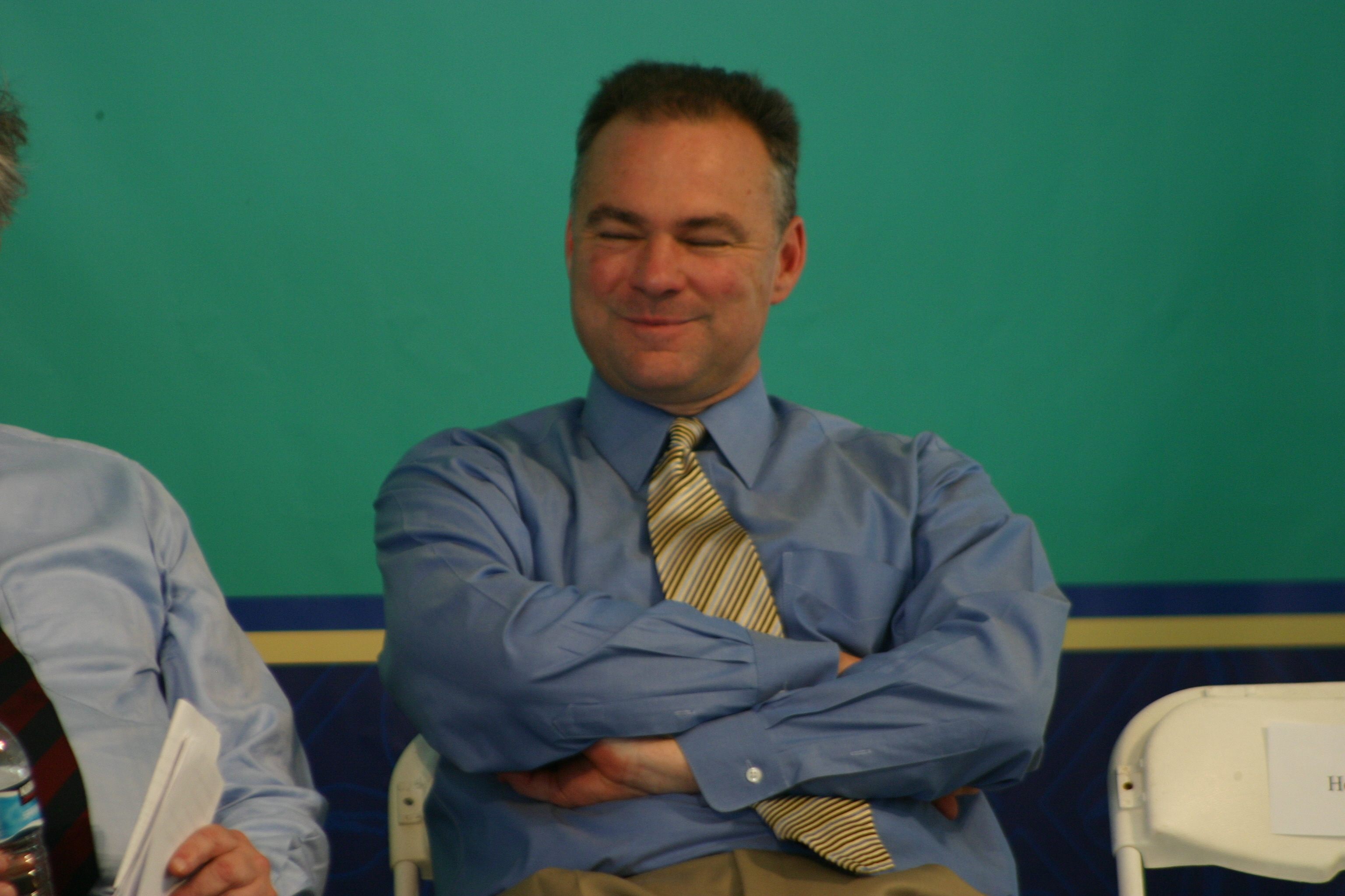 Tim Kaine, Governor of Virginia . 2007 Smithsonian 41st Folklife Festival . . Opening Ceremony . National Mall . Washington DC . Wednesday afternoon, 27 June 2007 . . Elvert Xavier Barnes Photography